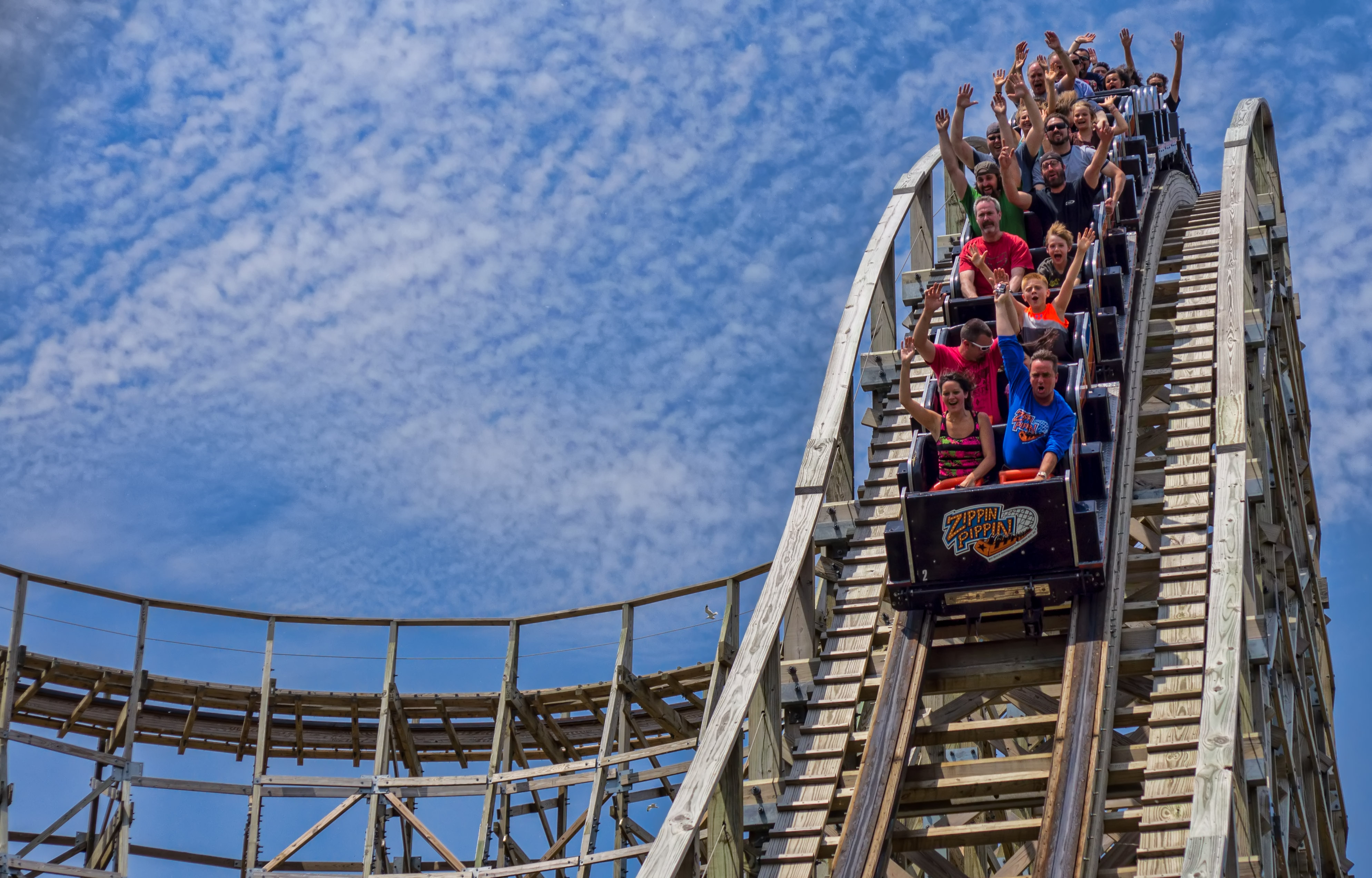 On 6/23/2013, the Zippin Pippin had it's one millionth rider, far ahead of any projections.